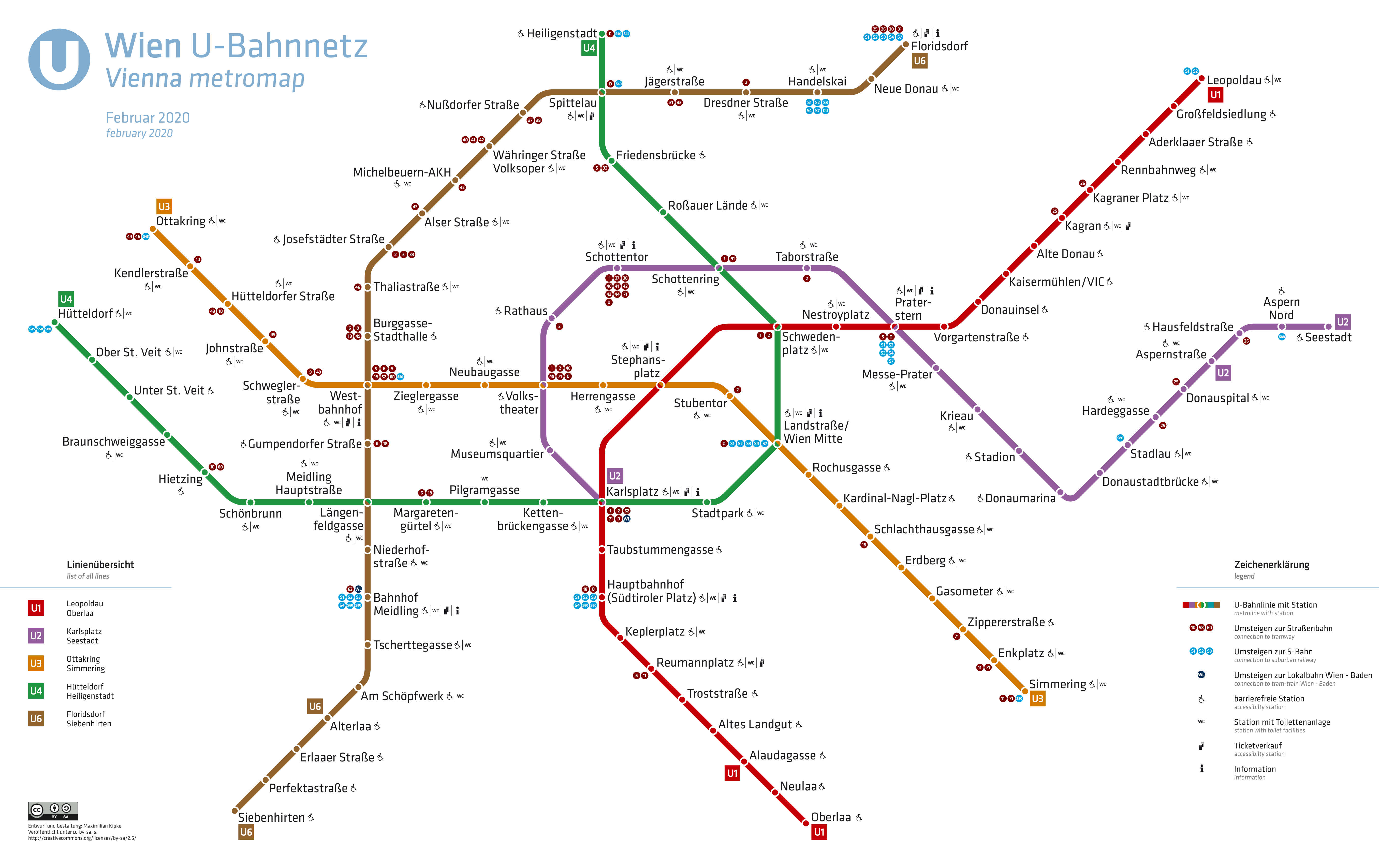 Metromap of Vienna in December 2019